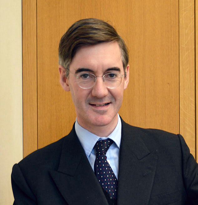 Conservative - North East Somerset